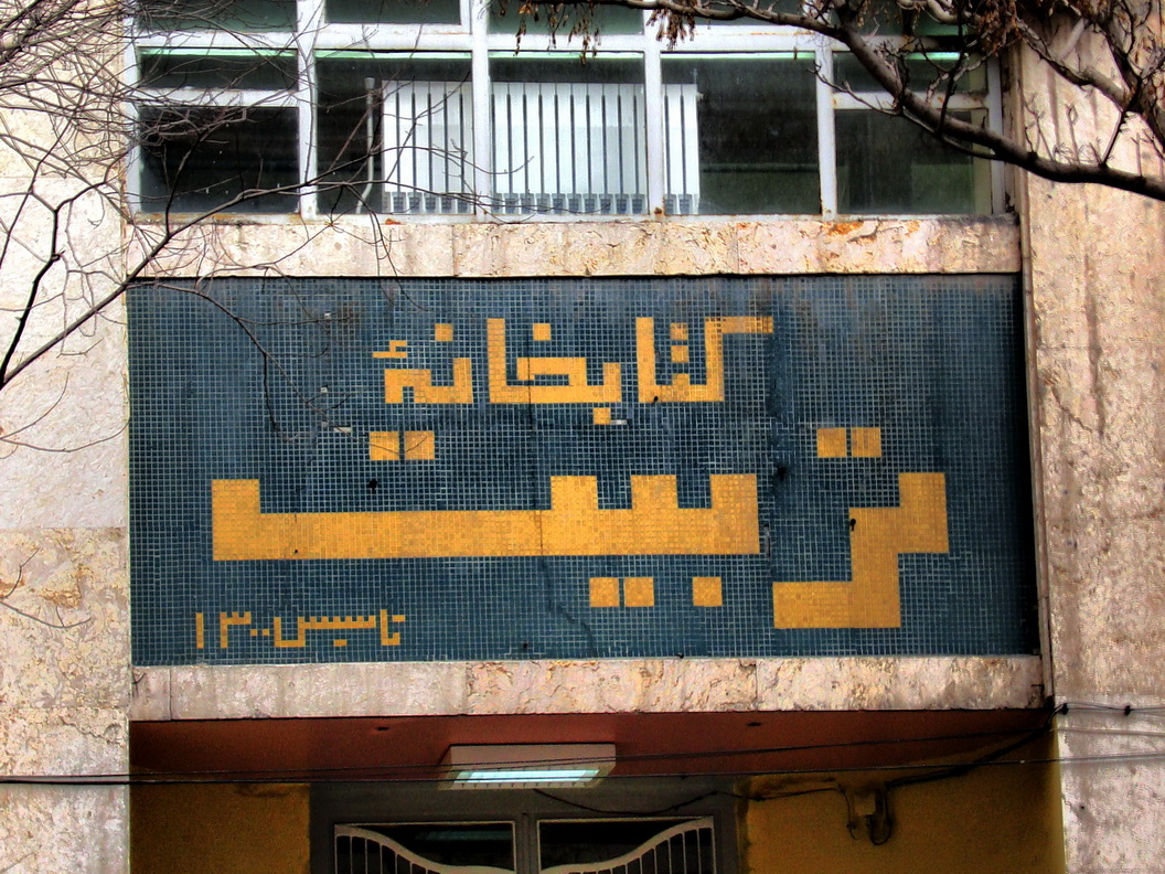 Tarbiyat Library, First Public Library in Iran, founded in 1921, Iran, Tabriz .